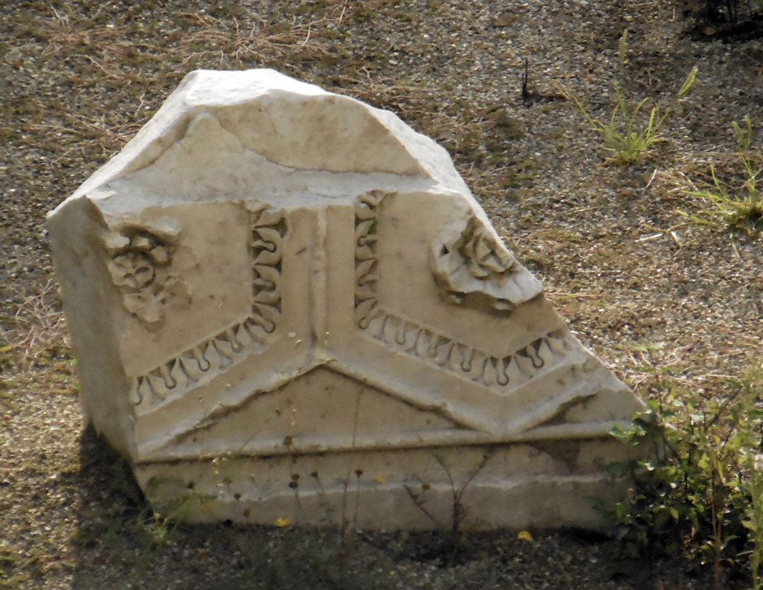 Italy, Rome, piazza Madonna di Loreto (near piazza Venezia), dig for the line C of the Rome metro, with remains of the Hadrian's Athenaeum: ceiling marble fragment with esagonal lacunars.